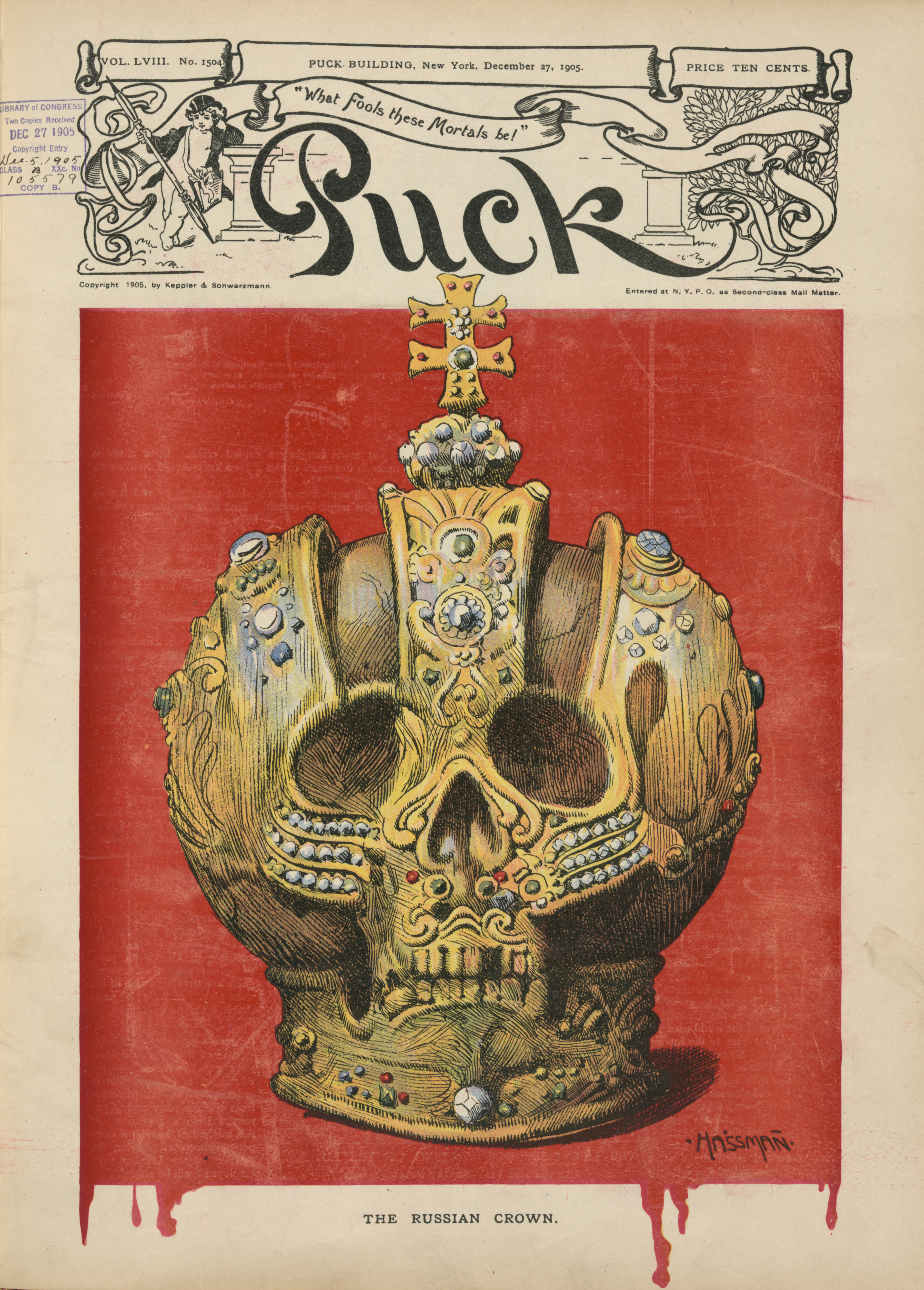 "The Russian crown". Illustration shows a crown in the shape of a human skull against a background of blood dripping into the title area at the bottom. Illus. in: Puck, v. 58, no. 1504 (1905 December 27), cover.